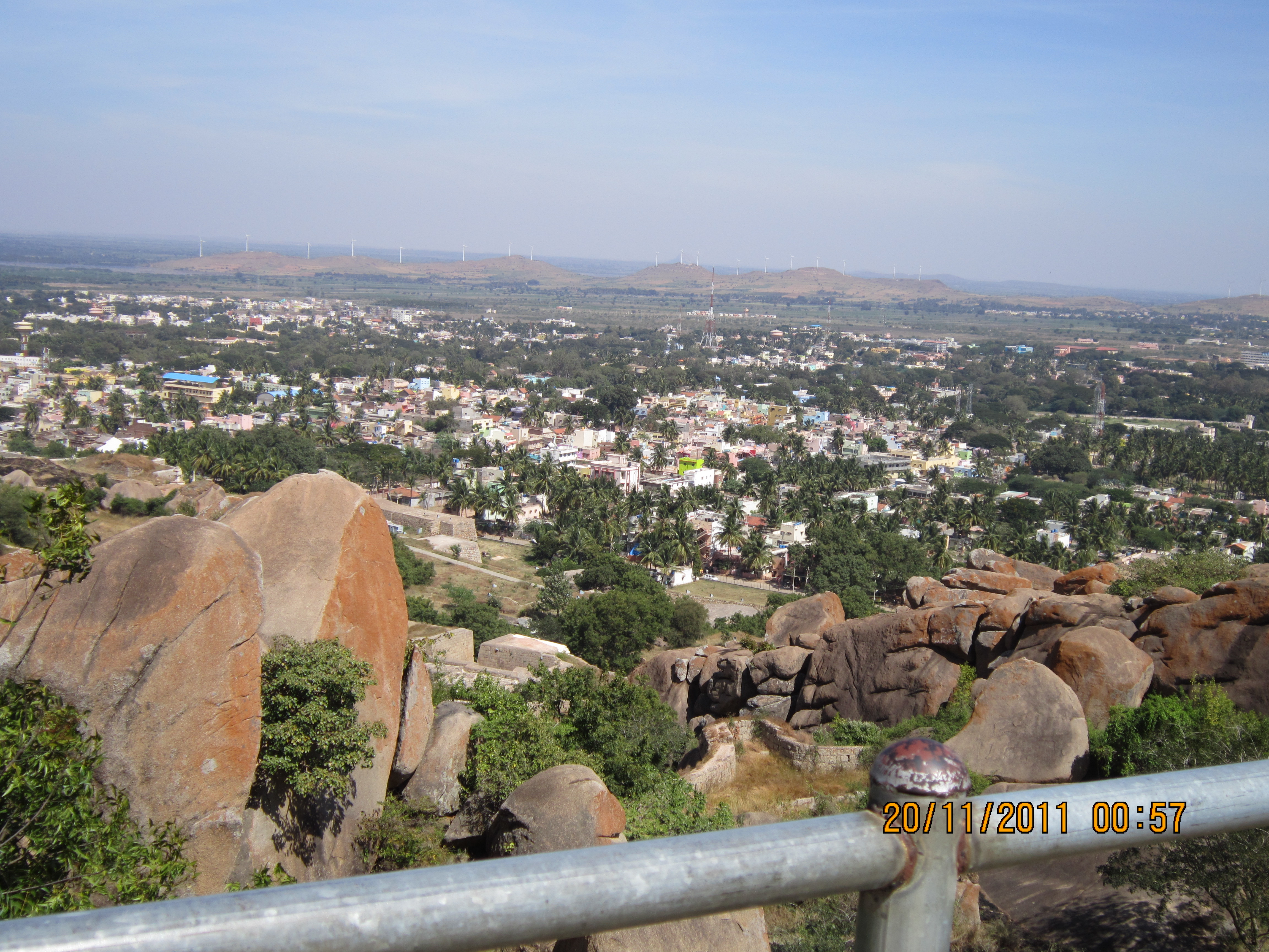 chitradurga city,karnataka state,India